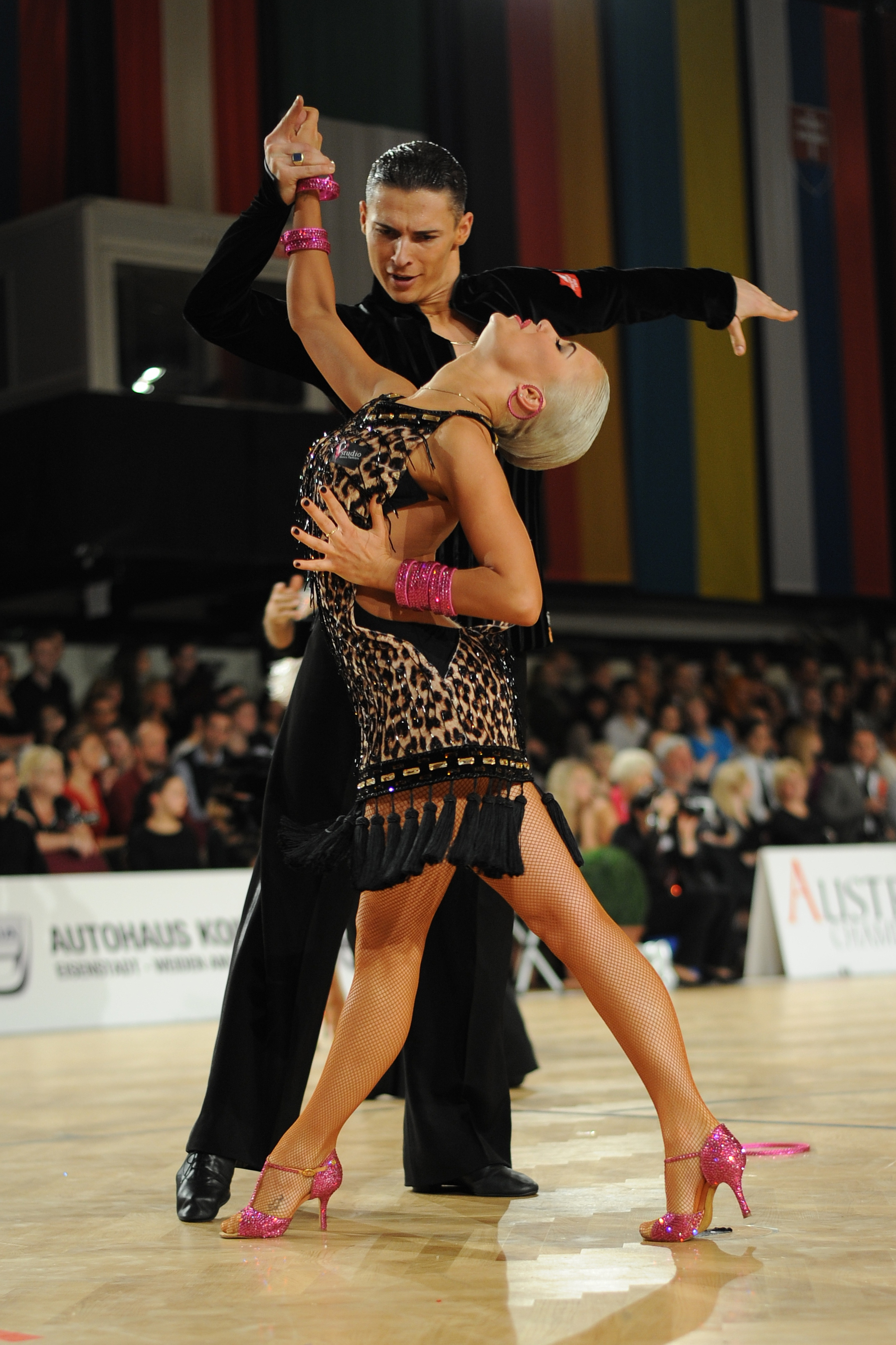 Austrian Open Championships Vienna, 2012 WDSF World Dancesport Championships Latin 16.-18. November 2012 The making of this work was supported by Wikimedia Austria. For other files made with the support of Wikimedia Austria, please see the category Supported by Wikimedia Österreich. Personality rights warning Although this work is freely licensed or in the public domain, the person(s) shown may have rights that legally restrict certain re-uses unless those depicted consent to such uses. In these cases, a model release or other evidence of consent could protect you from infringement claims.